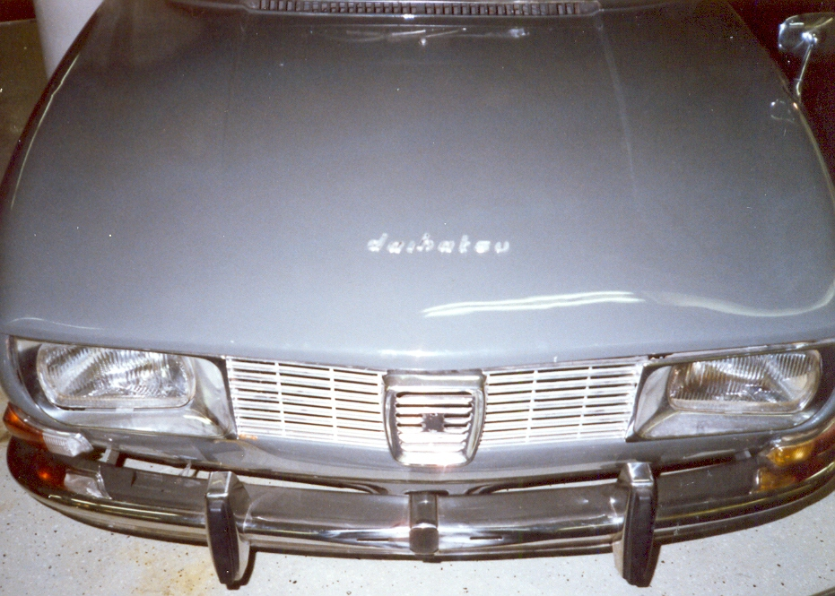 SAAB 99 prototype labelled "Daihatsu"